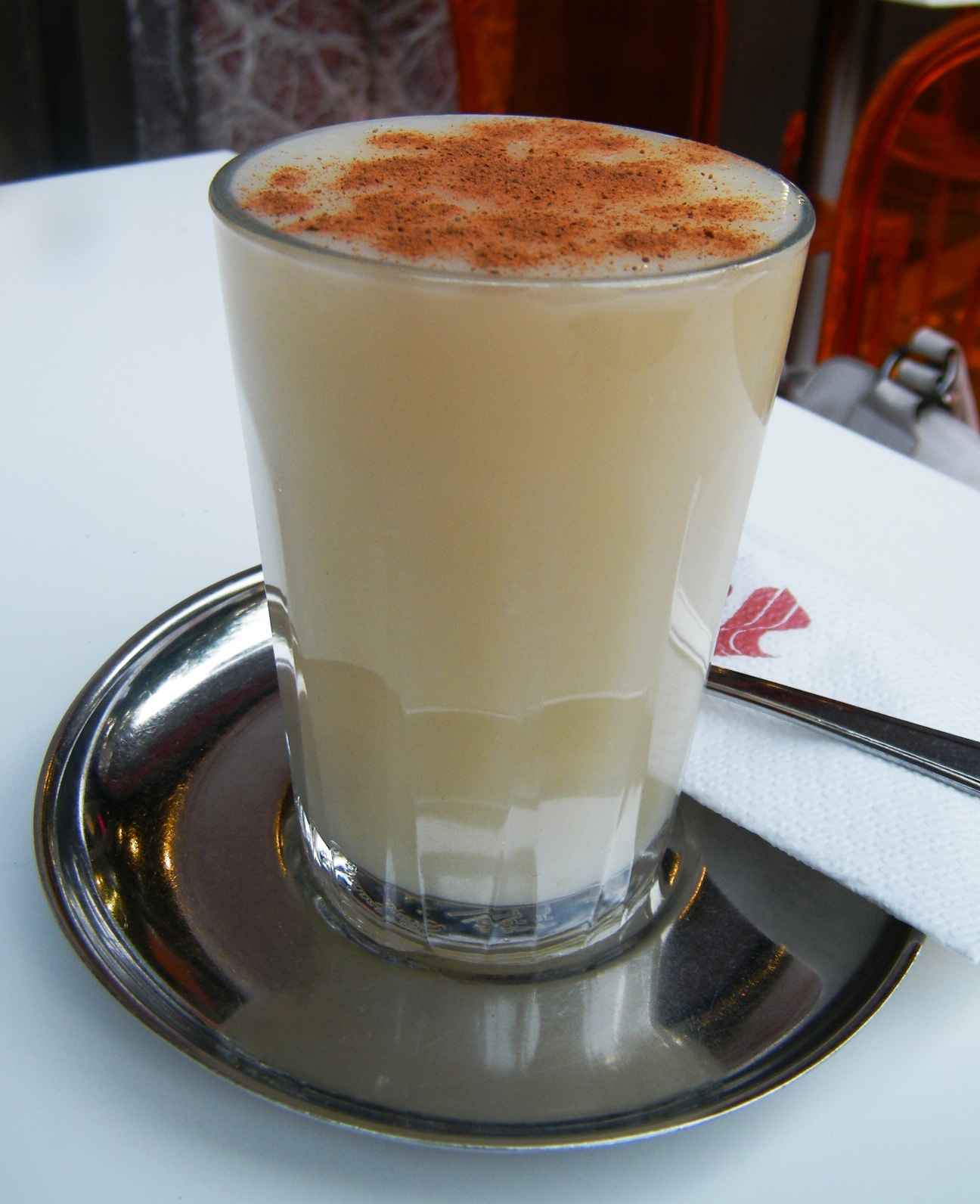 private